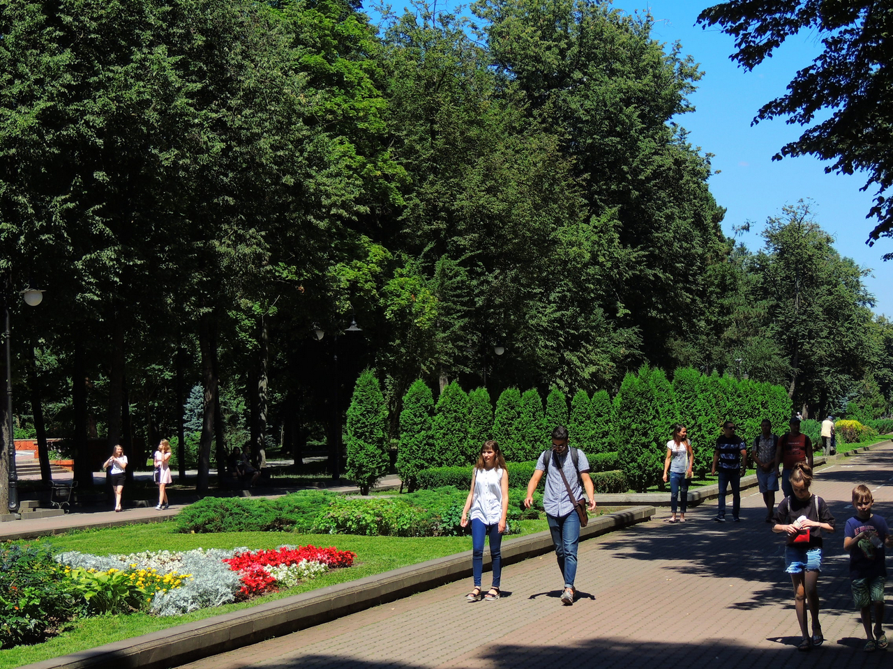 Shevchenko Park in Ivano-Frankivsk (2017)